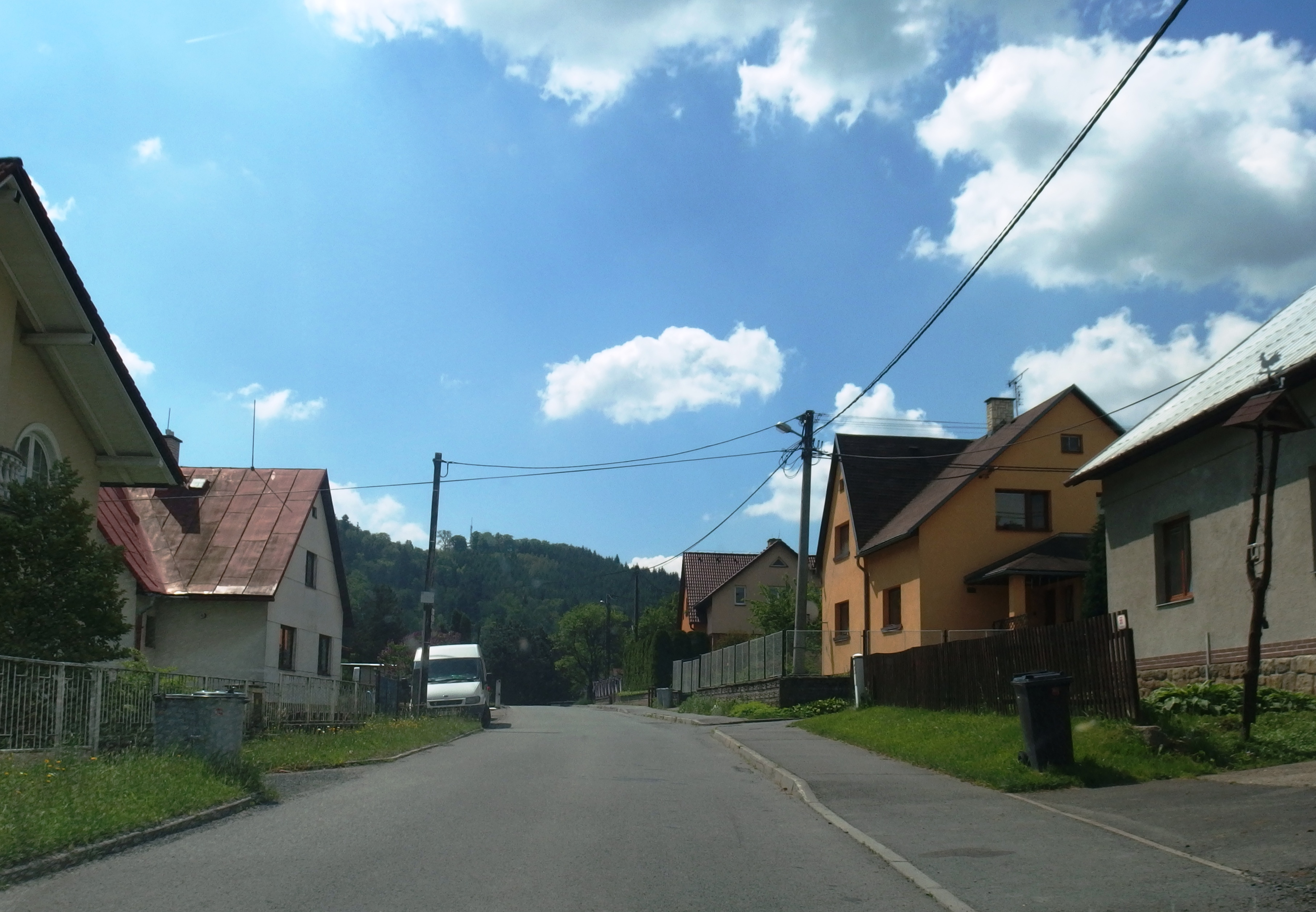 Vsetín, Czech Republic, part Semetín.